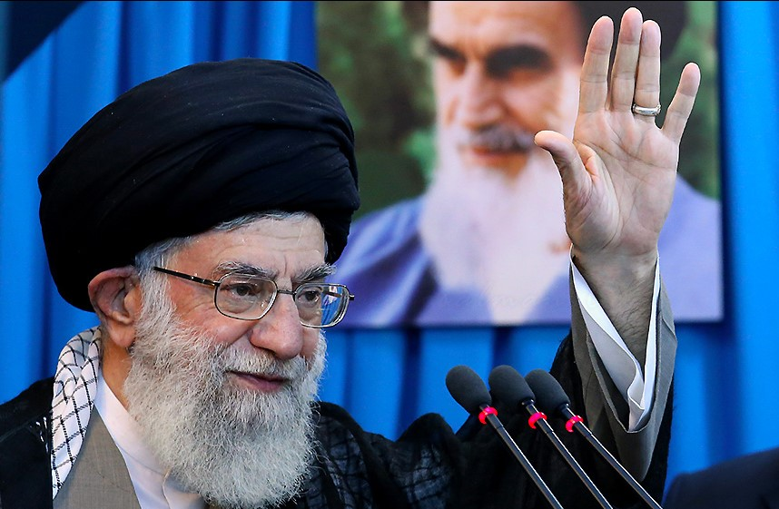 Grand Ayatollah Seyyed Ali Khamenei.